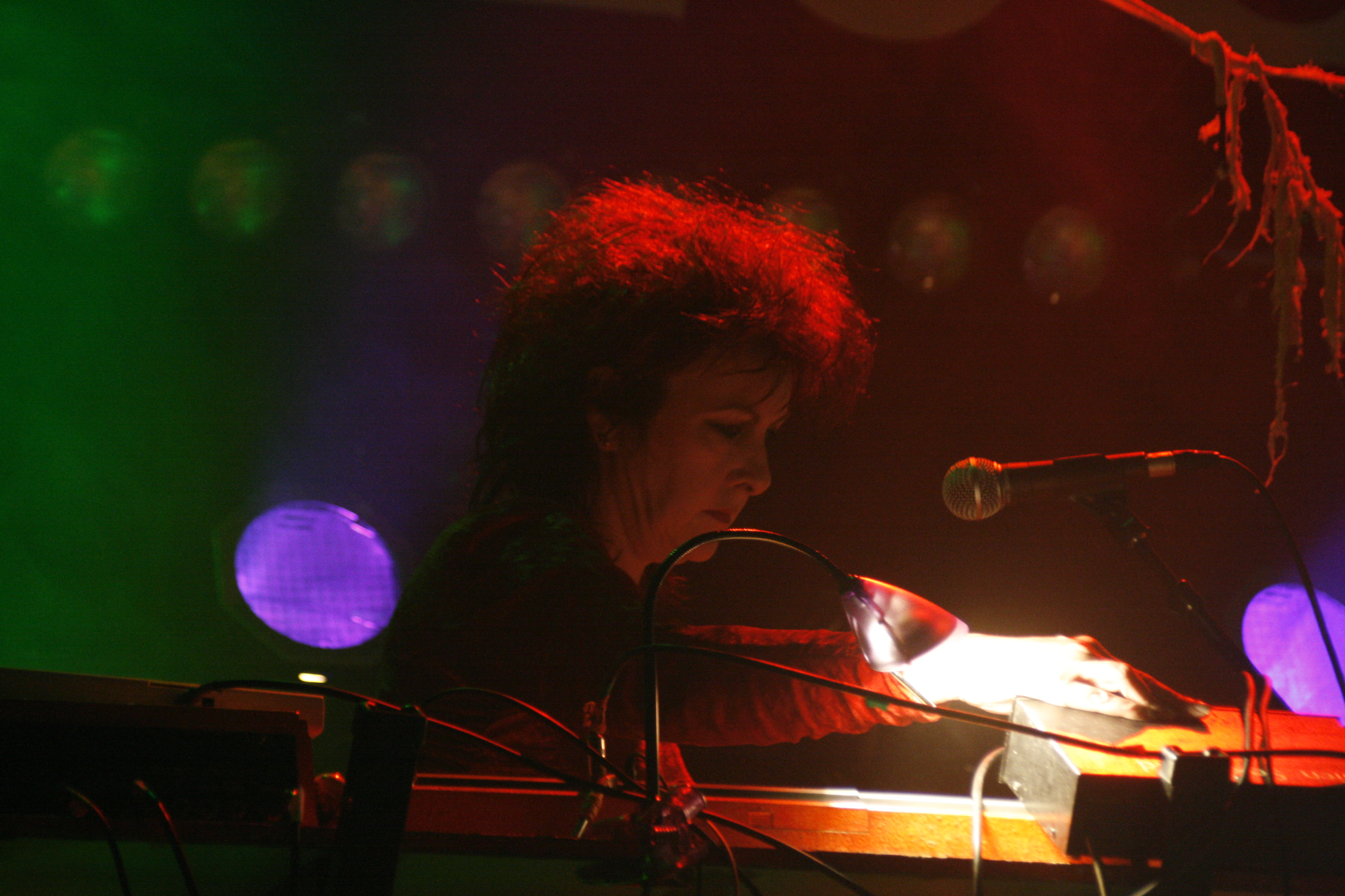 Alien Sex Fiend live in Paris at "la Loco"